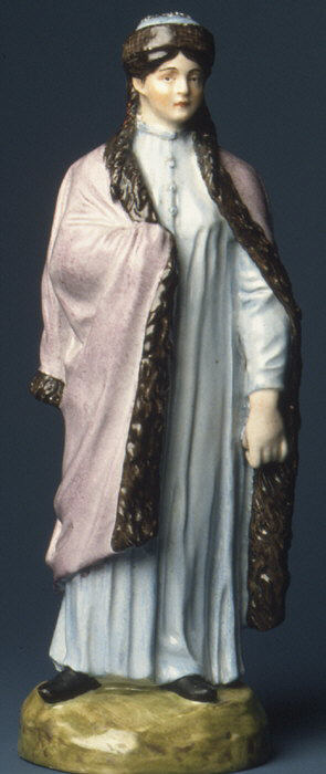 Russian, St. Petersburg; Figure; Ceramics-Porcelain